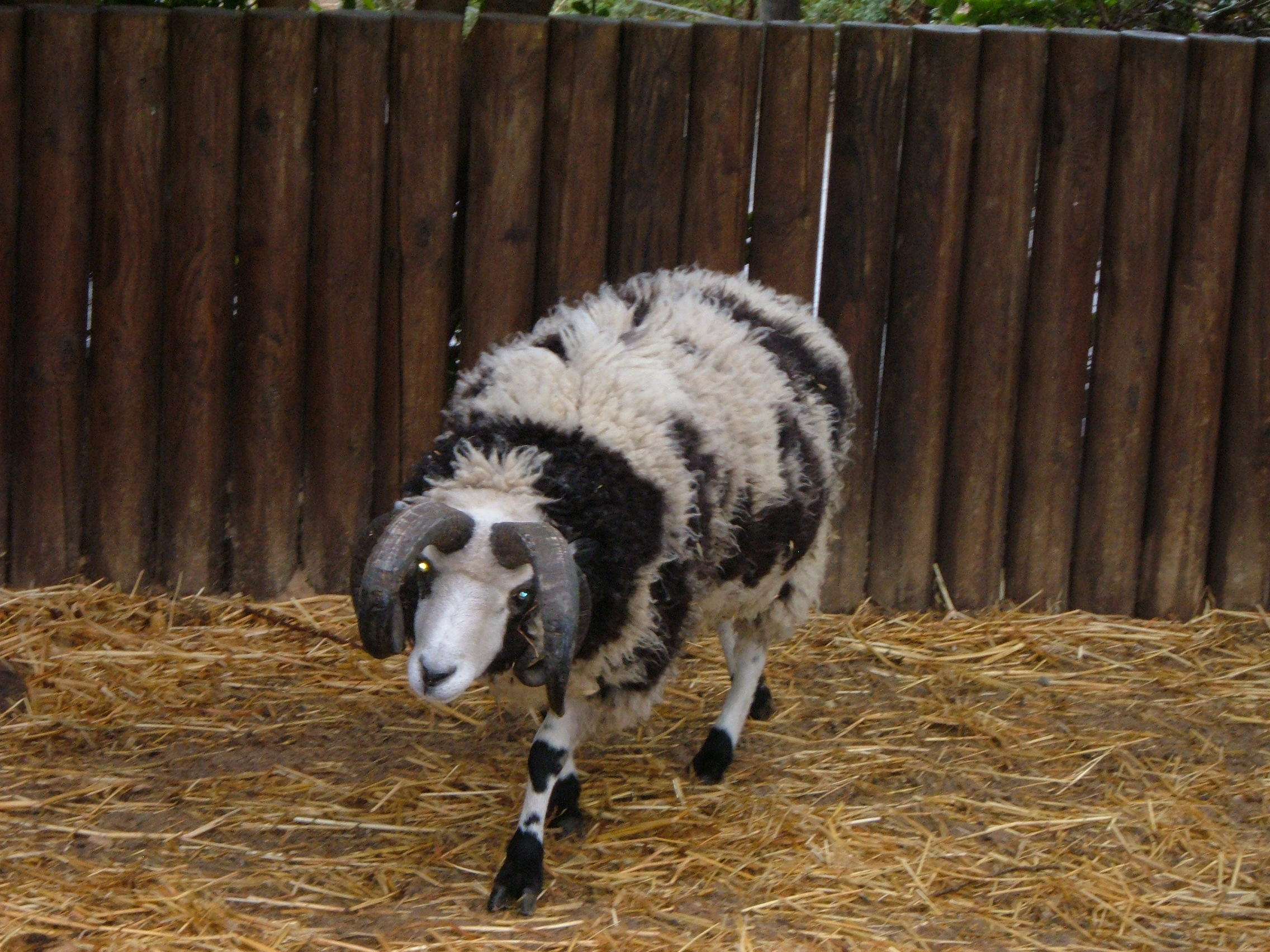 Wildlife and Plants of Israel